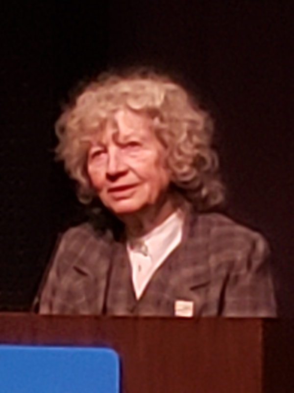 Ulrike Ottinger introducing Ticket of No Return at the Berkeley Art Museum and Pacific Film Archive in Berkeley, California, United States